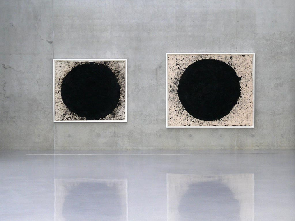 Richard Serra: Drawings I Work Comes Out of Work, Kunsthaus Bregenz 14.06.-14.09.2008 from the series "Rounds" and "out-of-rounds"